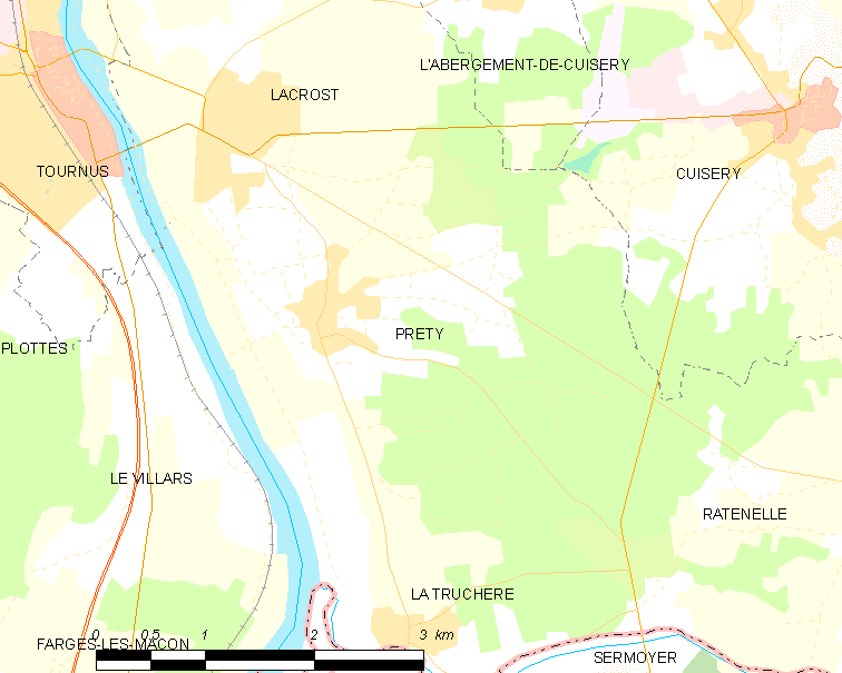 Map of French municipality